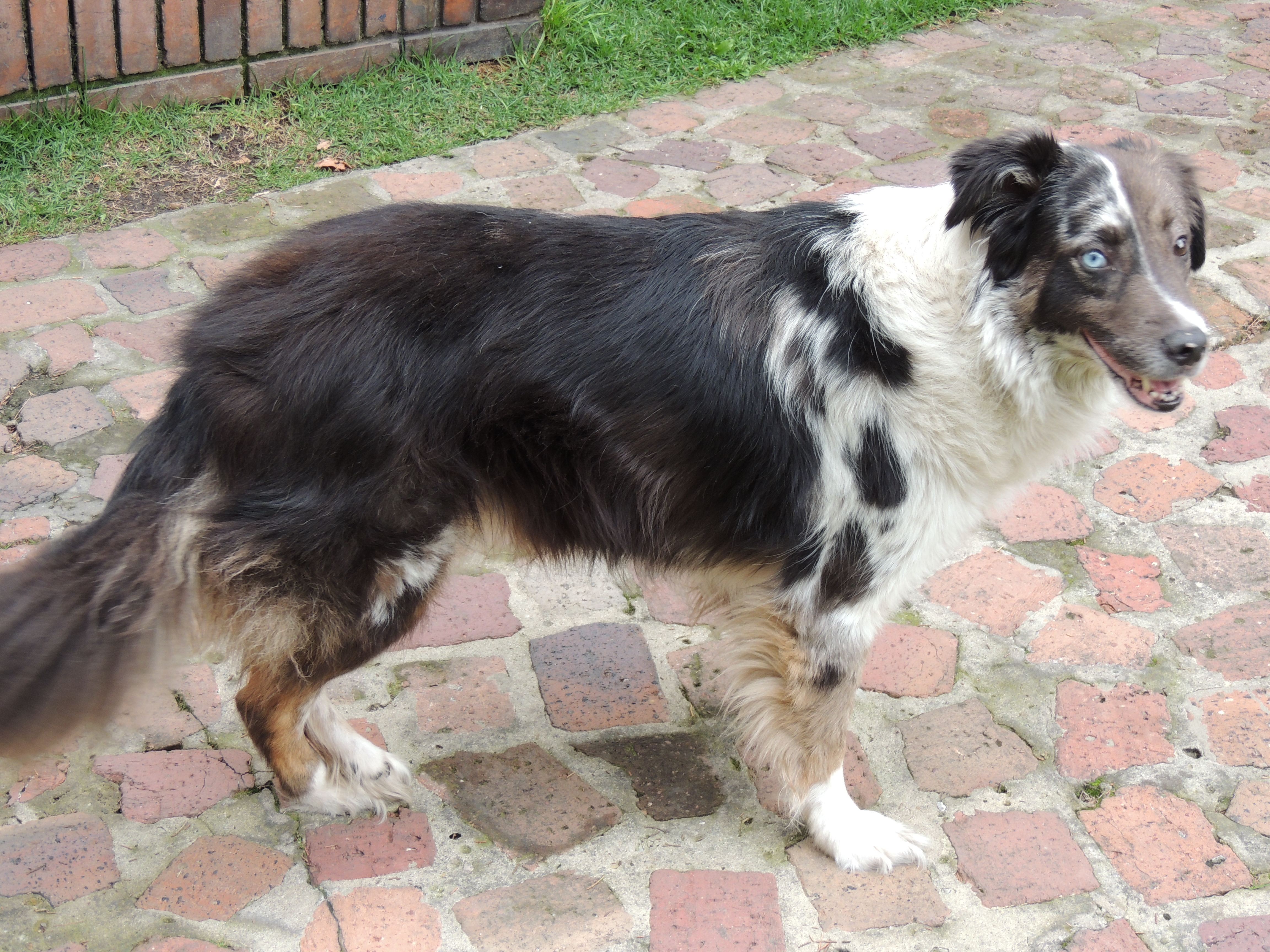 Border collie - australian shepherd 6-year-old mongrel bitch, with heterochromia, looking sideways. Pet.